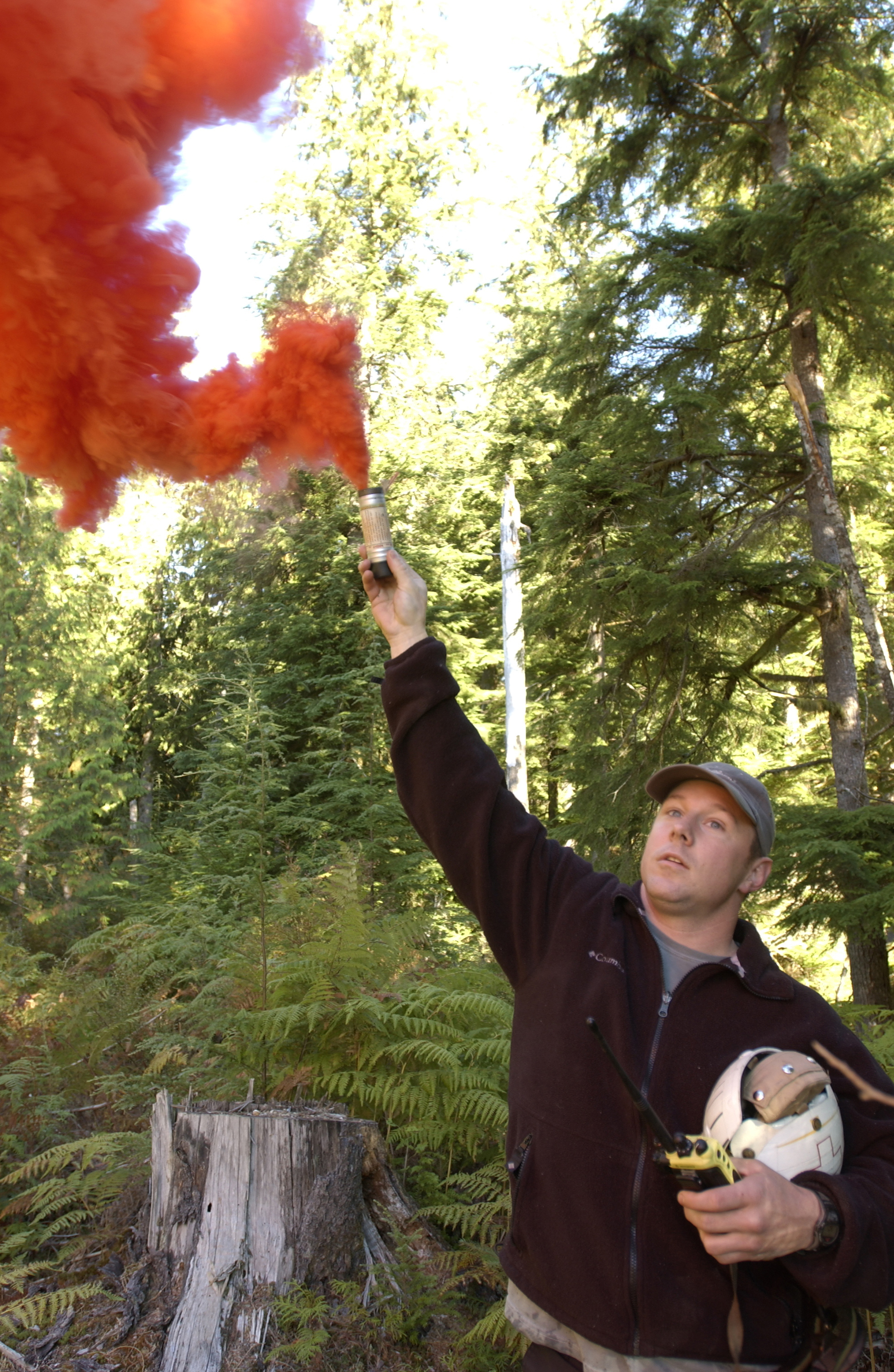 Lyman, Wash. (Sep. 26, 2003) -- Hospital Corpsman 2nd Class Ken Mazer, assigned to the Naval Air Station Whidbey Island Search and Rescue team (SAR), "pops smoke" to signal his location to the rescue helicopter. SAR is conducting exercises in the North Cascade Mountains. U.S. Navy photo by Photographer's Mate 2nd Class Michael Watkins. (RELEASED)